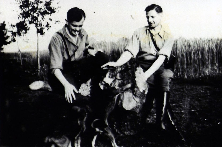 Hieronim Dekutowski ("Zapora") and Zdzisław Broński ("Uskok")- Polish soldiers, partisans of Armia Krajowa